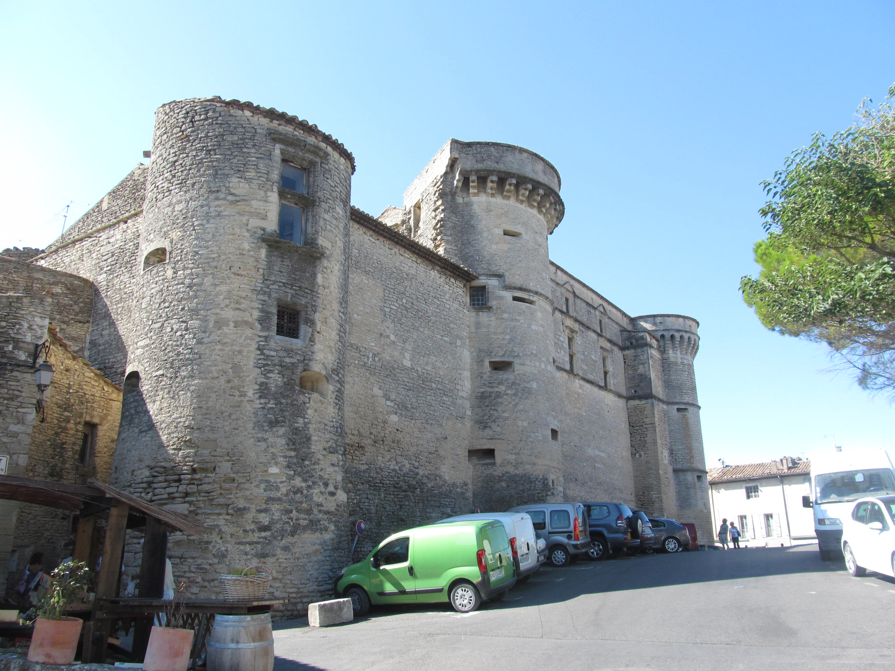 Gordes - Castle